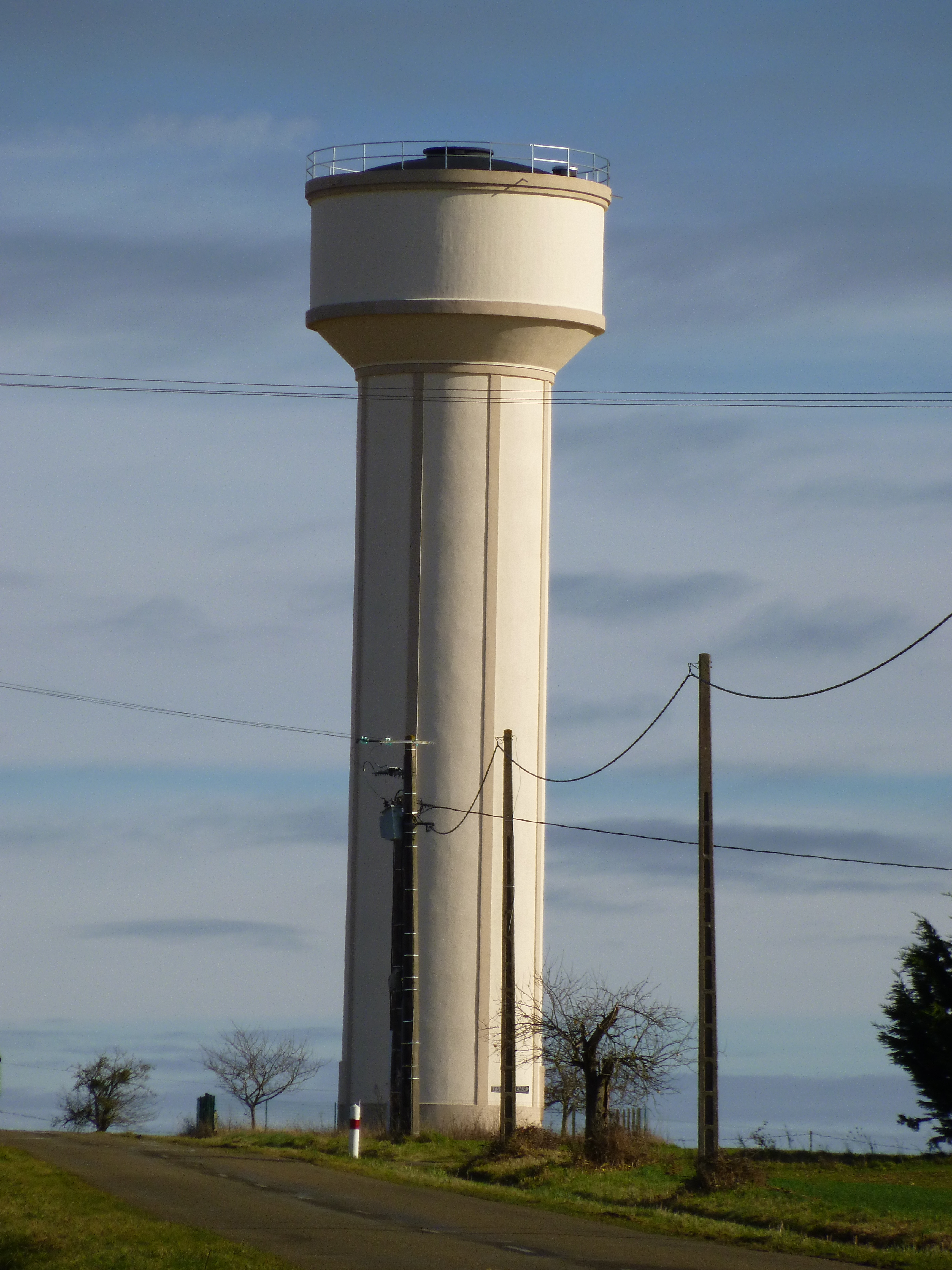 Saint-Maurice-sur-Aveyron, Loiret, région Centre, France. The town's water tower; built by the road to Charny.